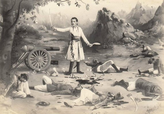 Portrait of Bahadur Gambhir Singh Rayamajhi